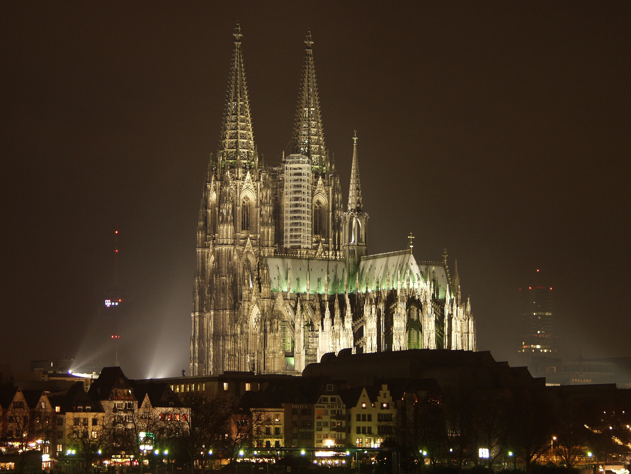 The Gothic Cologne cathedral in Cologne, Germany